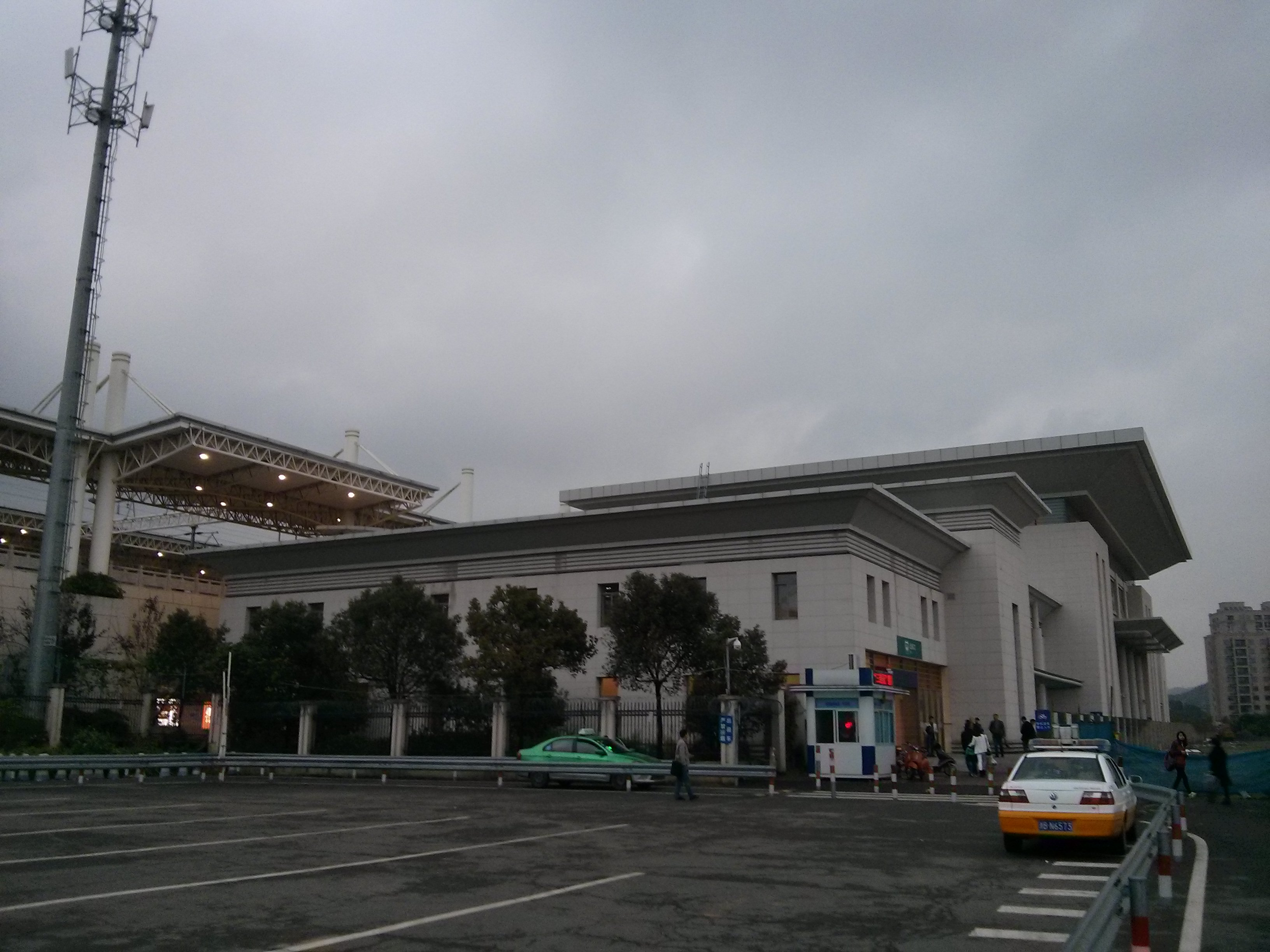 Ning`hai Railway Station